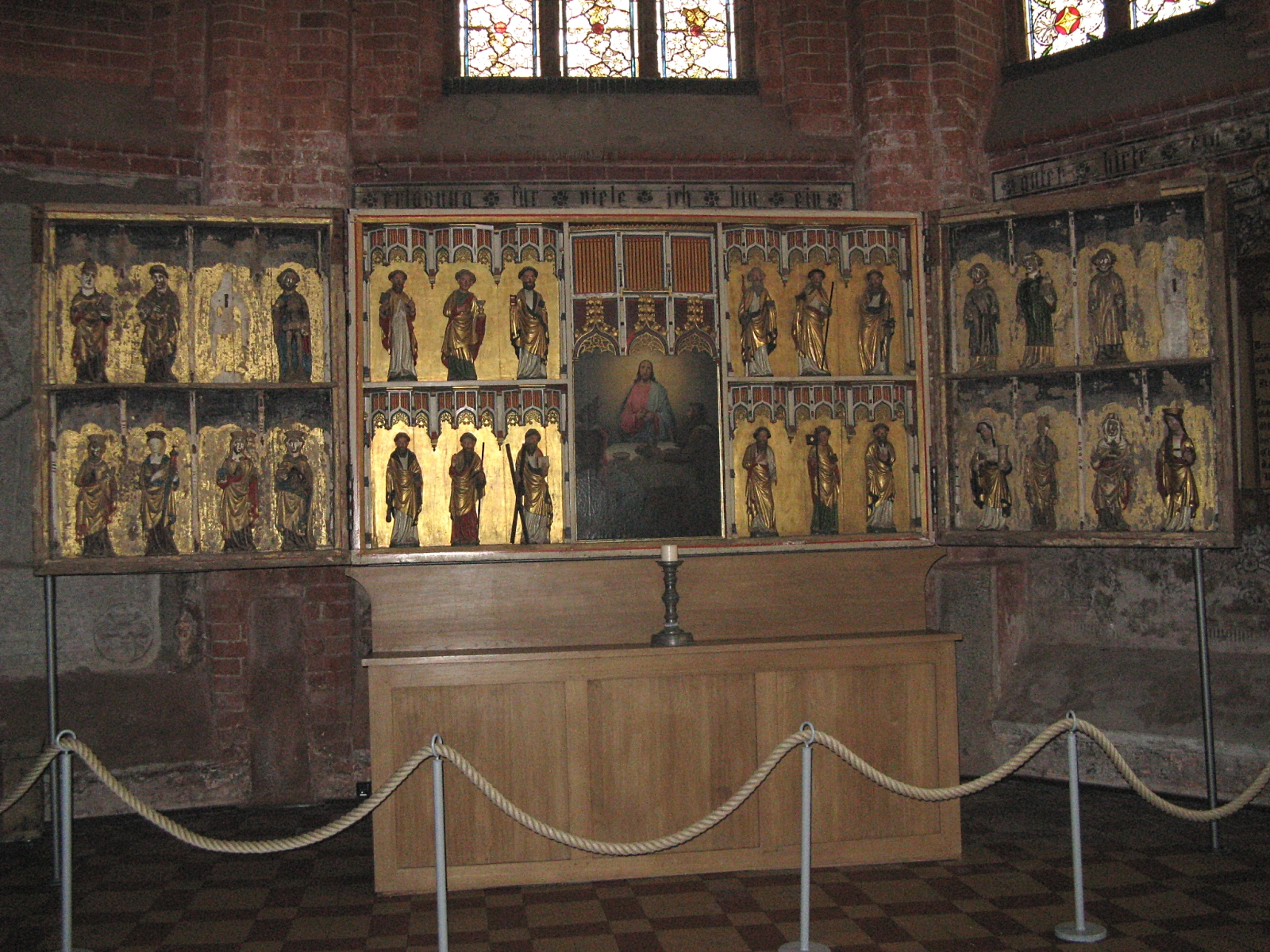 Church St. Georgen in Parchim, Germany - Polyptych